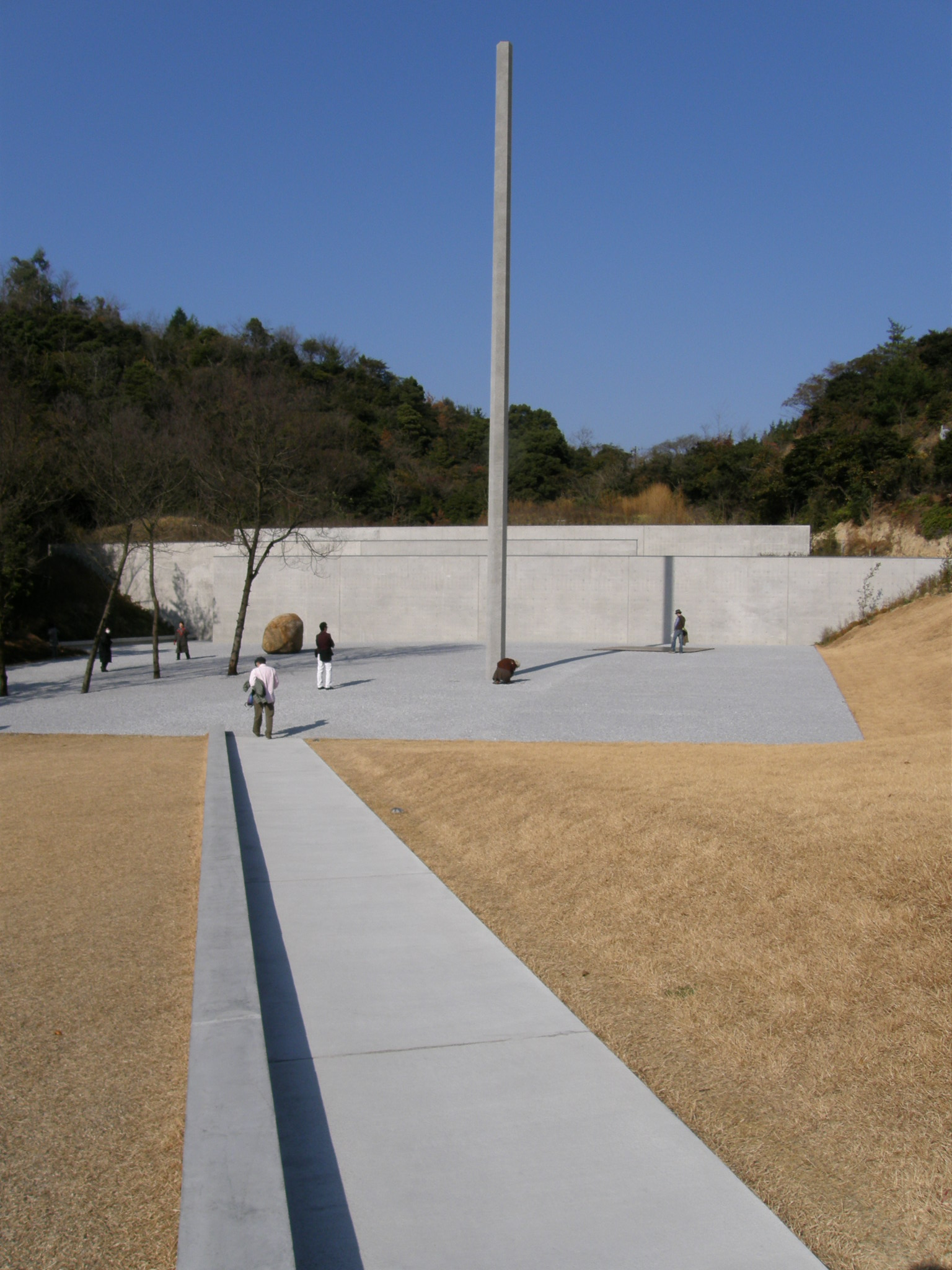 Lee Ufan Museum — contemporary art museum in Kagawa prefecture, Japan. Collaborative work of Tadao Ando and Lee U-Fan.